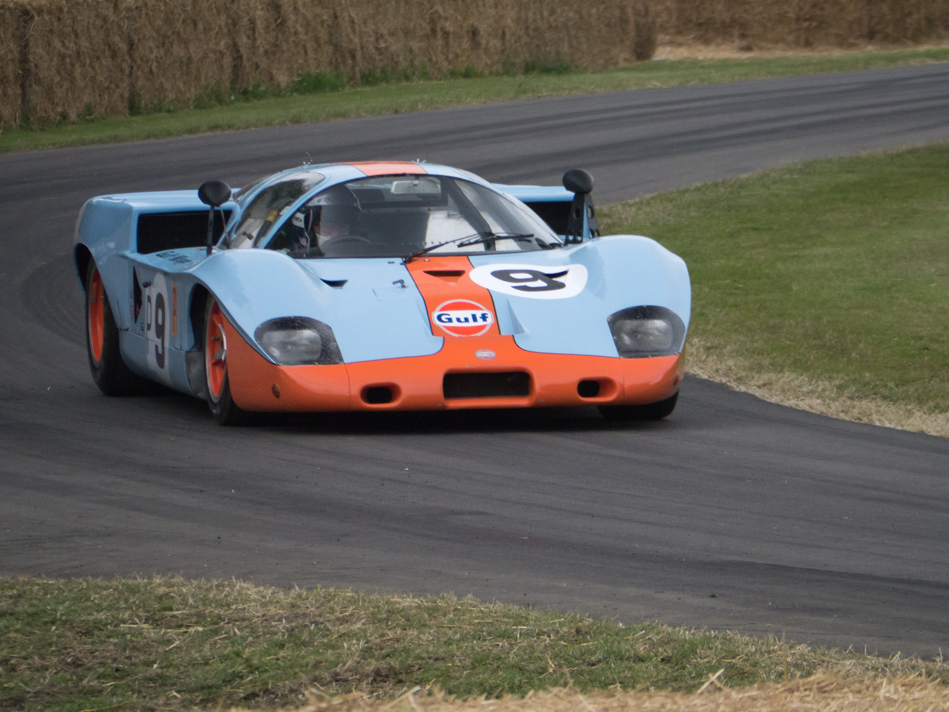 designed by Len Terry for JW Automotive